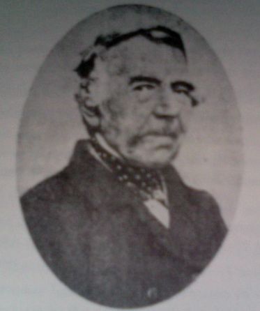 Andrea Postacchini (1788-1862), Italian violin maker known as "The Stradivari of the Marches"